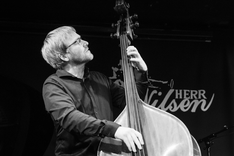 Ole Marius Sandberg in a concert with Trøen/Arnesen Kvartett at Herr Nilsen. The concert was part of Oslo Jazzfestival and took place on 11. August 2019 in Oslo. Lineup:Elisabeth Lid Trøen (saxophone)Dag Arnesen (grand piano)Ole Marius Sandberg (double bass)Frank Jakobsen (drums)